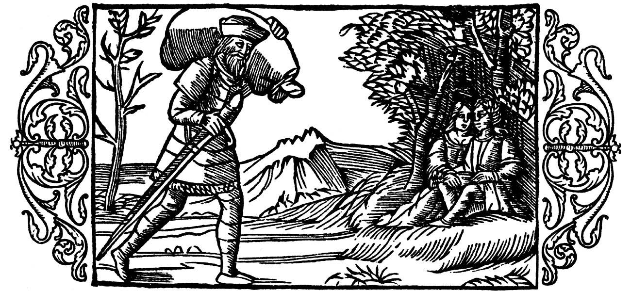 Starkaðr is on his way to the Danish king Ingell. He carries a broadsword and a sack of coal with which he will ”sharpen” the dull king of Denmark. King Ingell is sitting with a mistress under the trees to the right. From Olaus Magnus' "Historia de gentibus septentrionalibus".